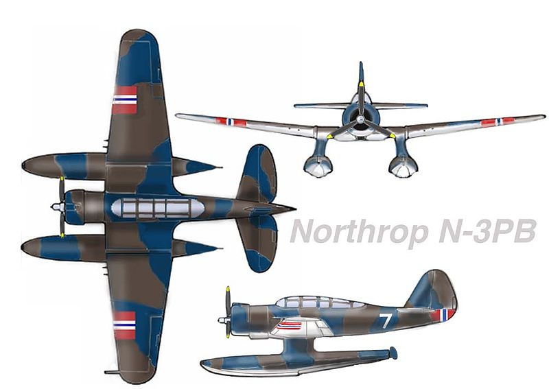 Northrop N-3PB in Canada, c. 1941